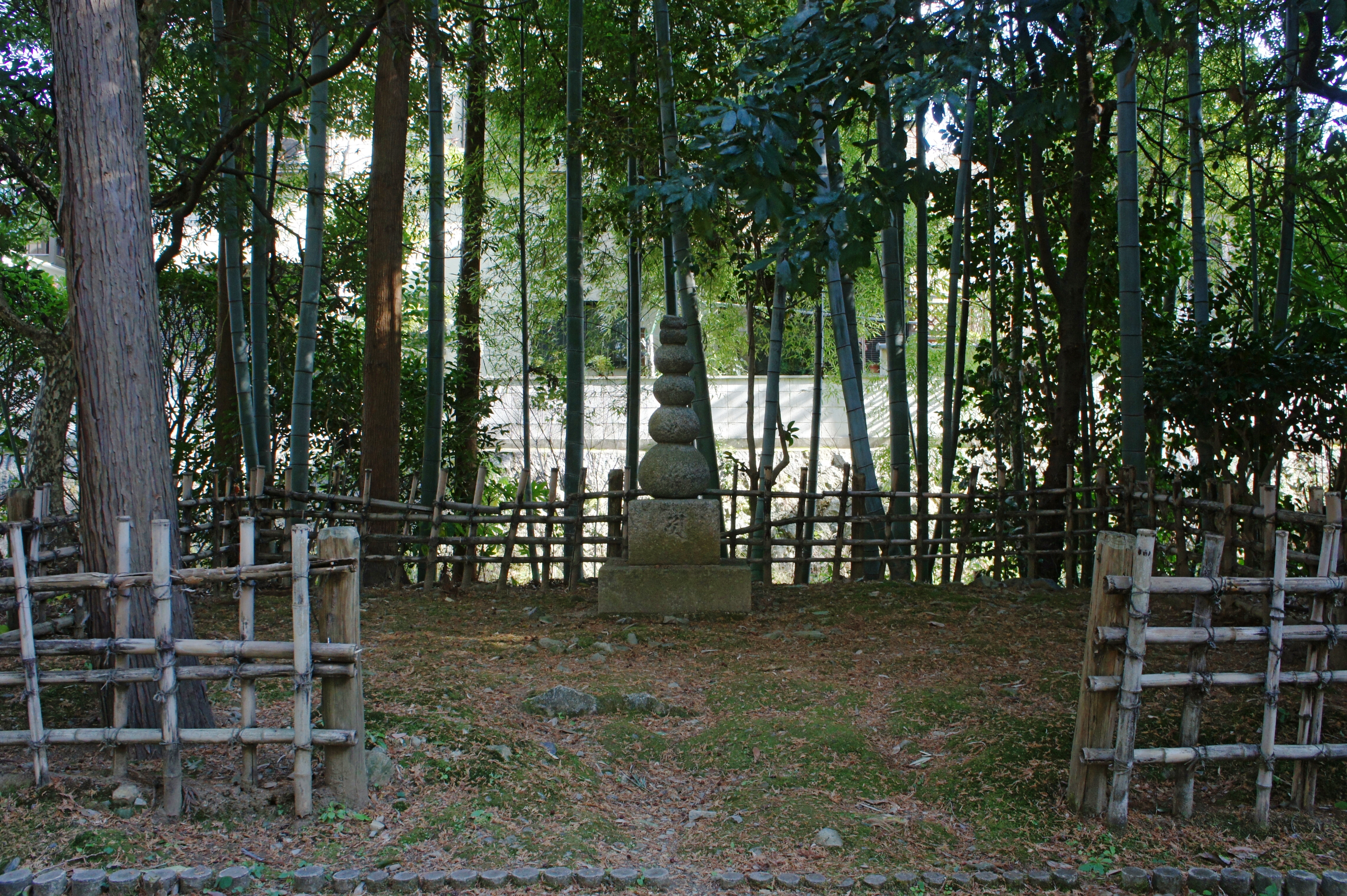 Zuishin-in in Kyoto, Kyoto prefecture, Japan